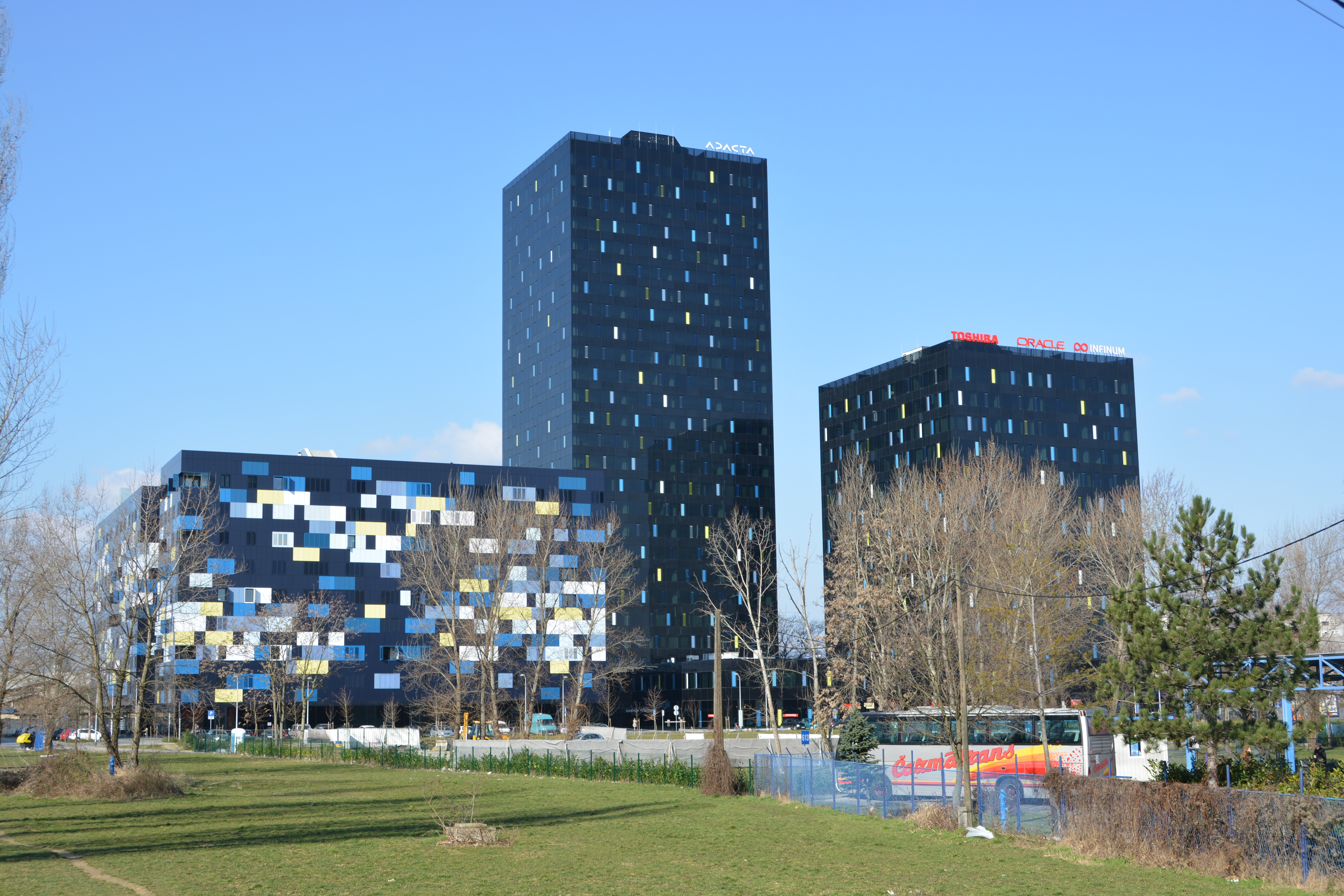 Centar Strojarska, Zagreb.